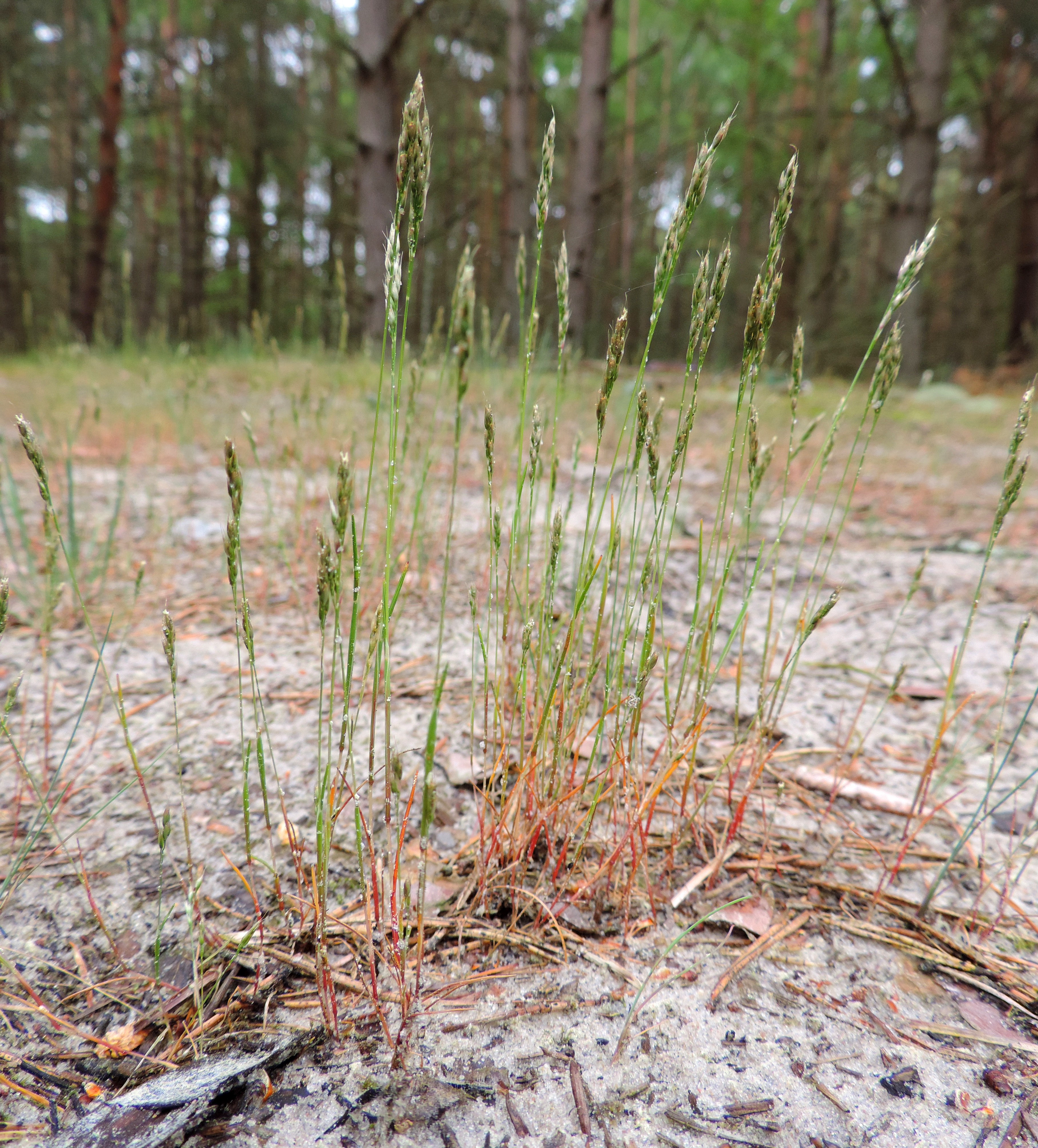 Aira praecox. Near Kołobrzeg, N Poland